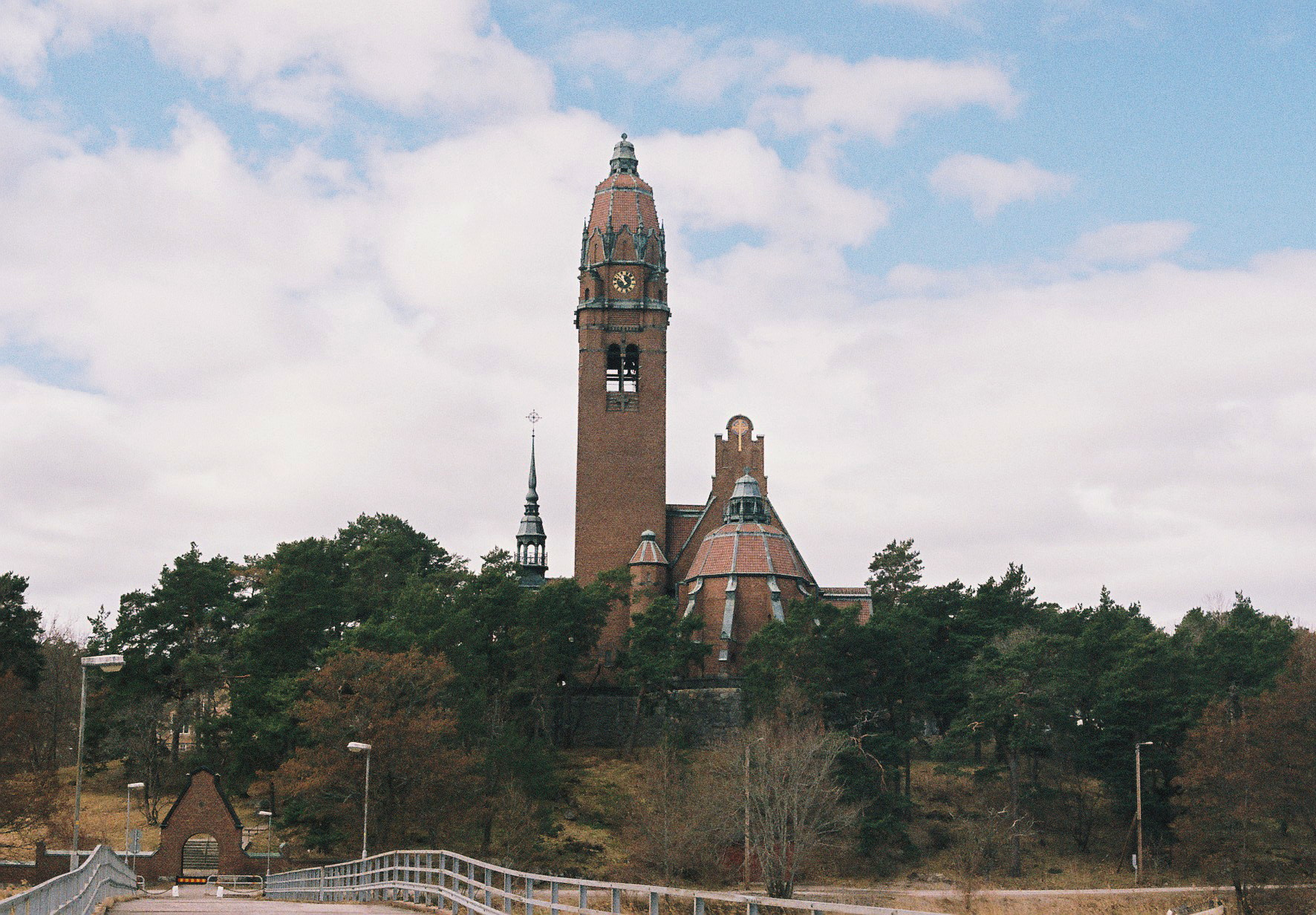 Uppenbarelsekyrkan may 2011